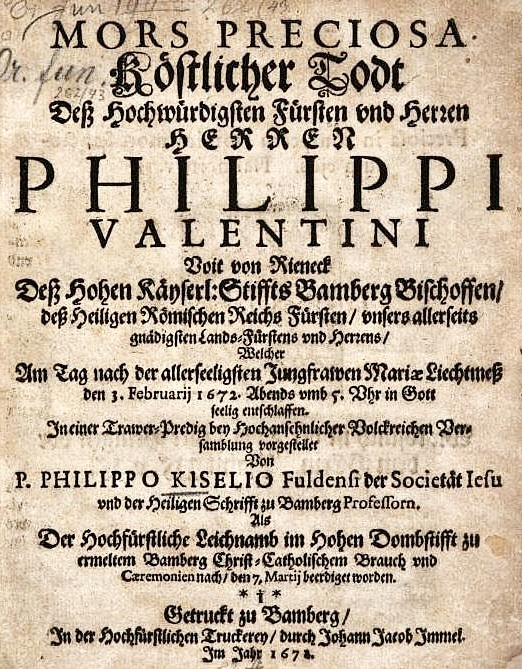 Philipp Kisel (1609-1681) Jesuit, Leichenpredigt, Bamberg 1672